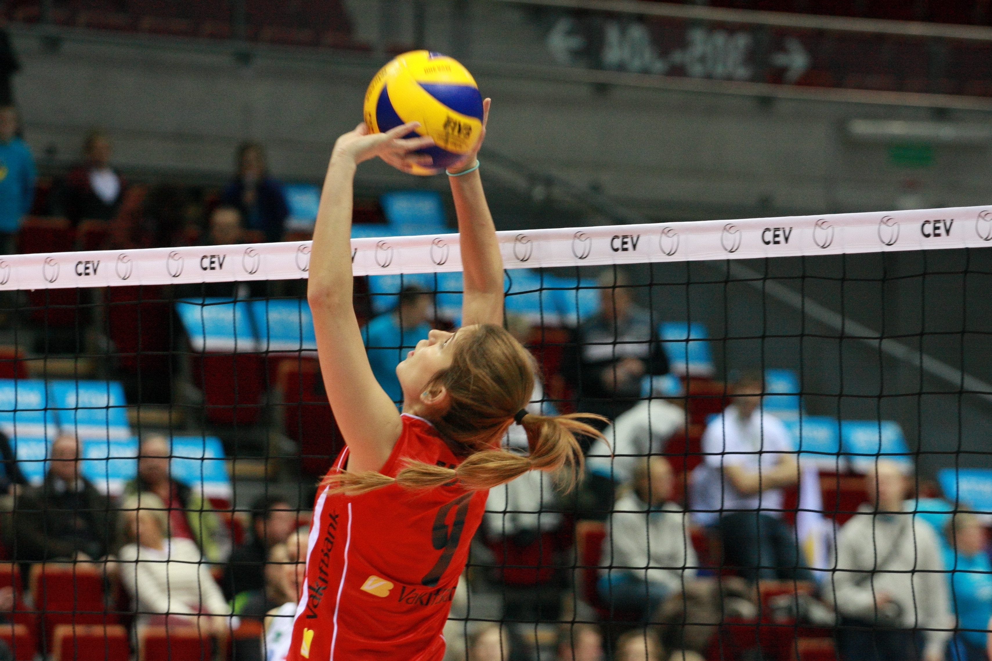 Tugce Hocaoglu